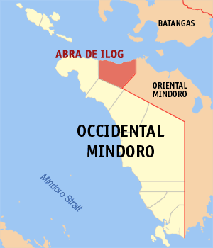 Map of Occidental Mindoro showing the location of Abra de Ilog